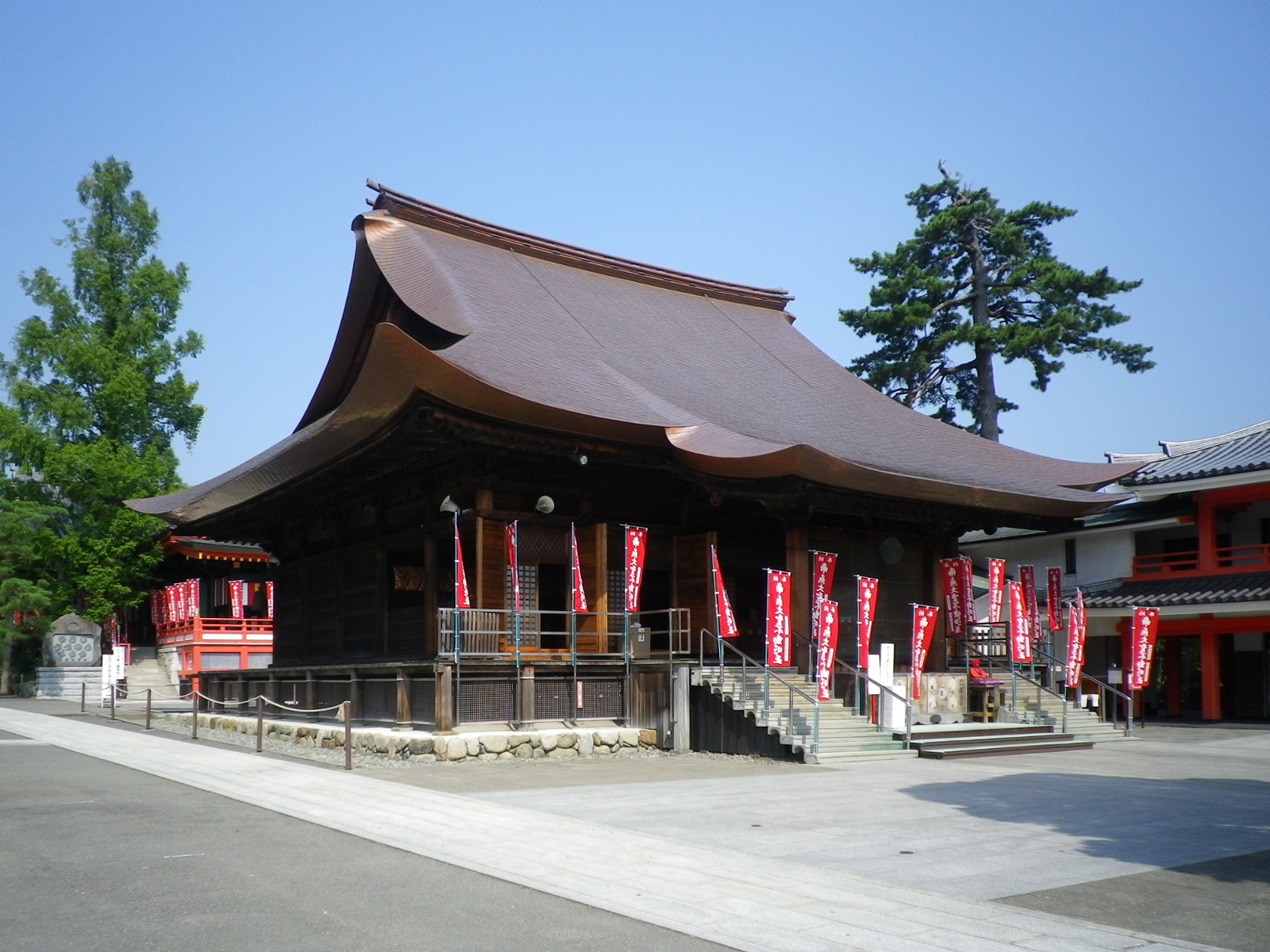 Fudō-dō of Kongō-ji temple (Takahata Fudō) in Hino, Tokyo